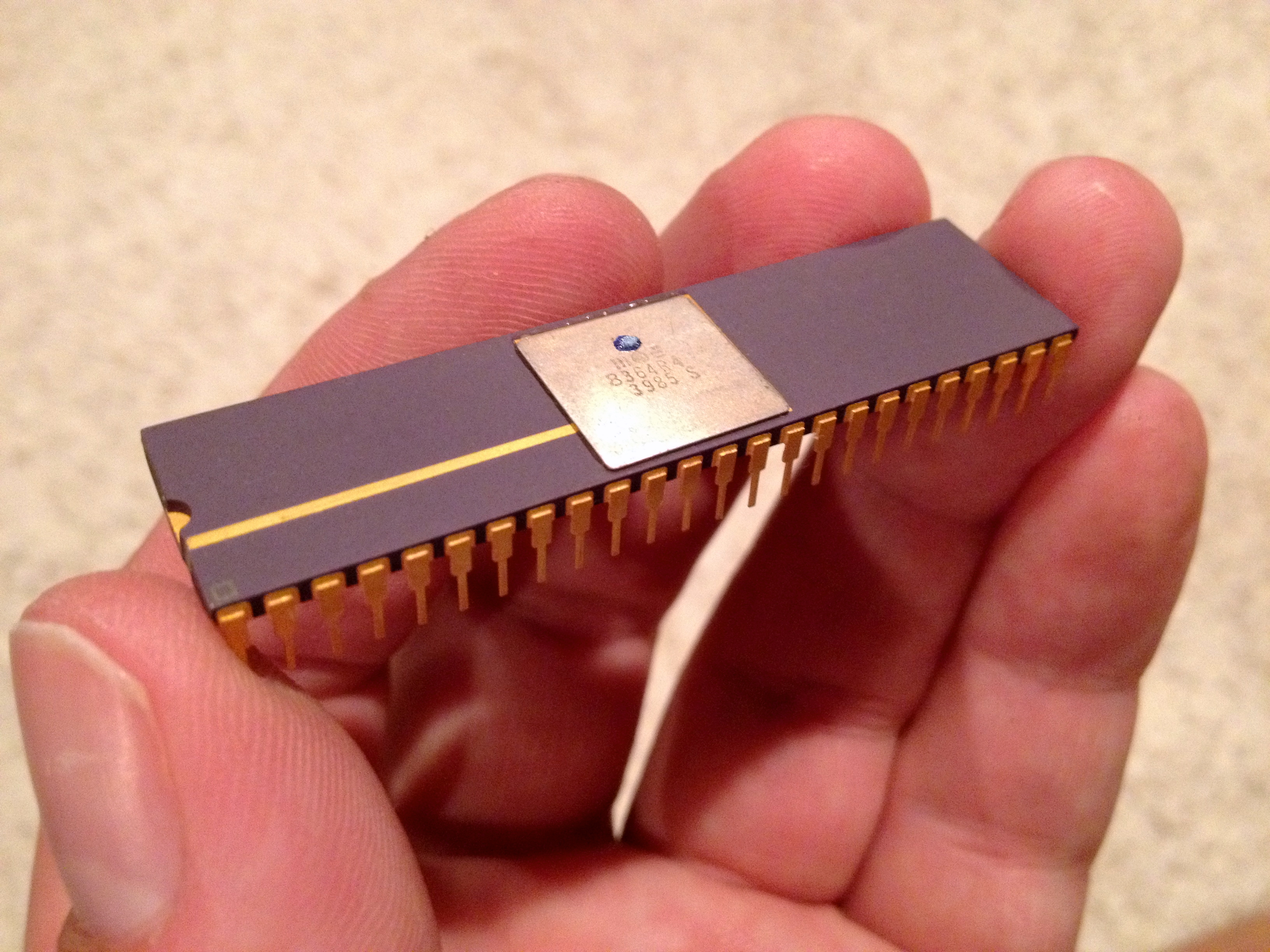 The custom audio chip, pulled from my spare Amiga 1000.